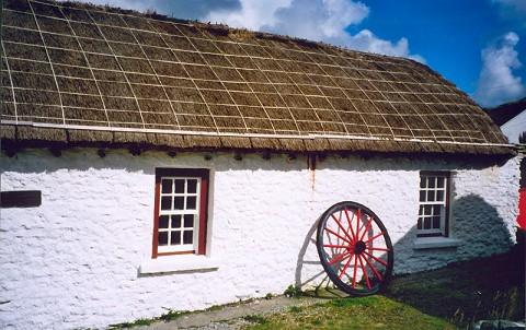 Scan of original photograph taken by me at the Folk Village Museum in Gleann Cholm Cille in 2001